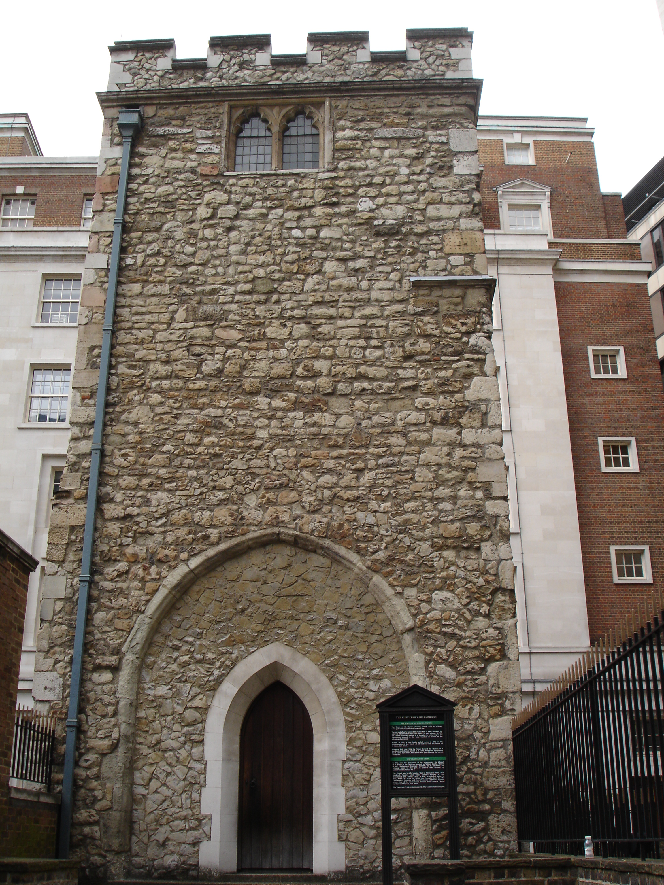 Photograph of the tower of All Hallows Staining, London, England